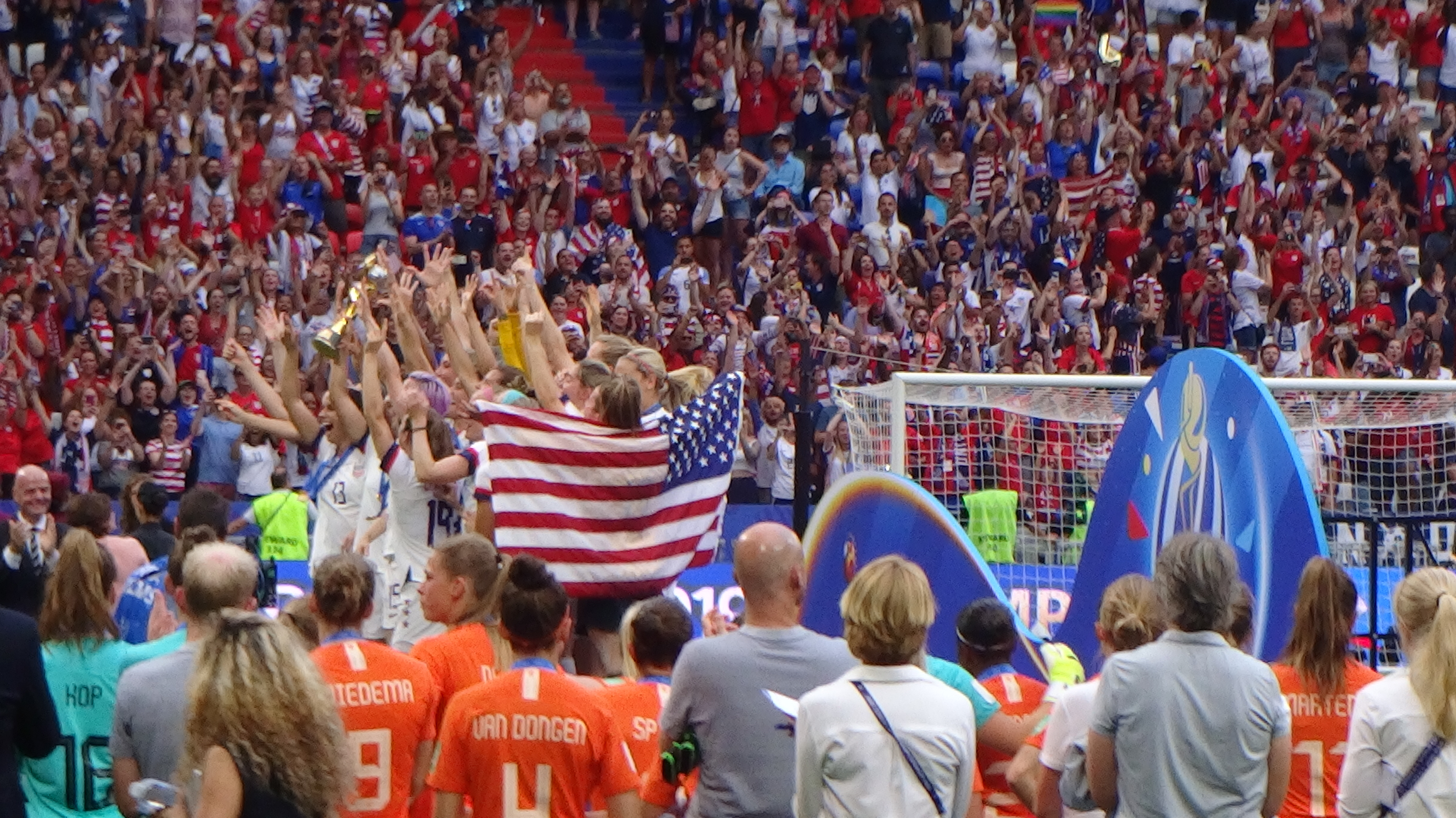 The US team receiving their champion medals